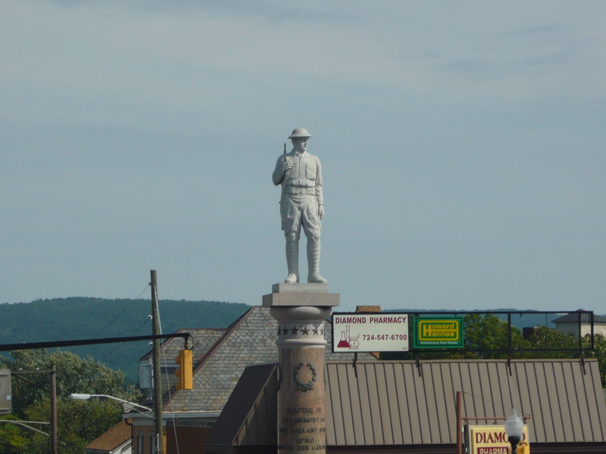 Doughboy statue in town square, intersection of West Main Street and Diamond Street, looking eastward, Mount Pleasant, Westmoreland County, Pennsylvania.